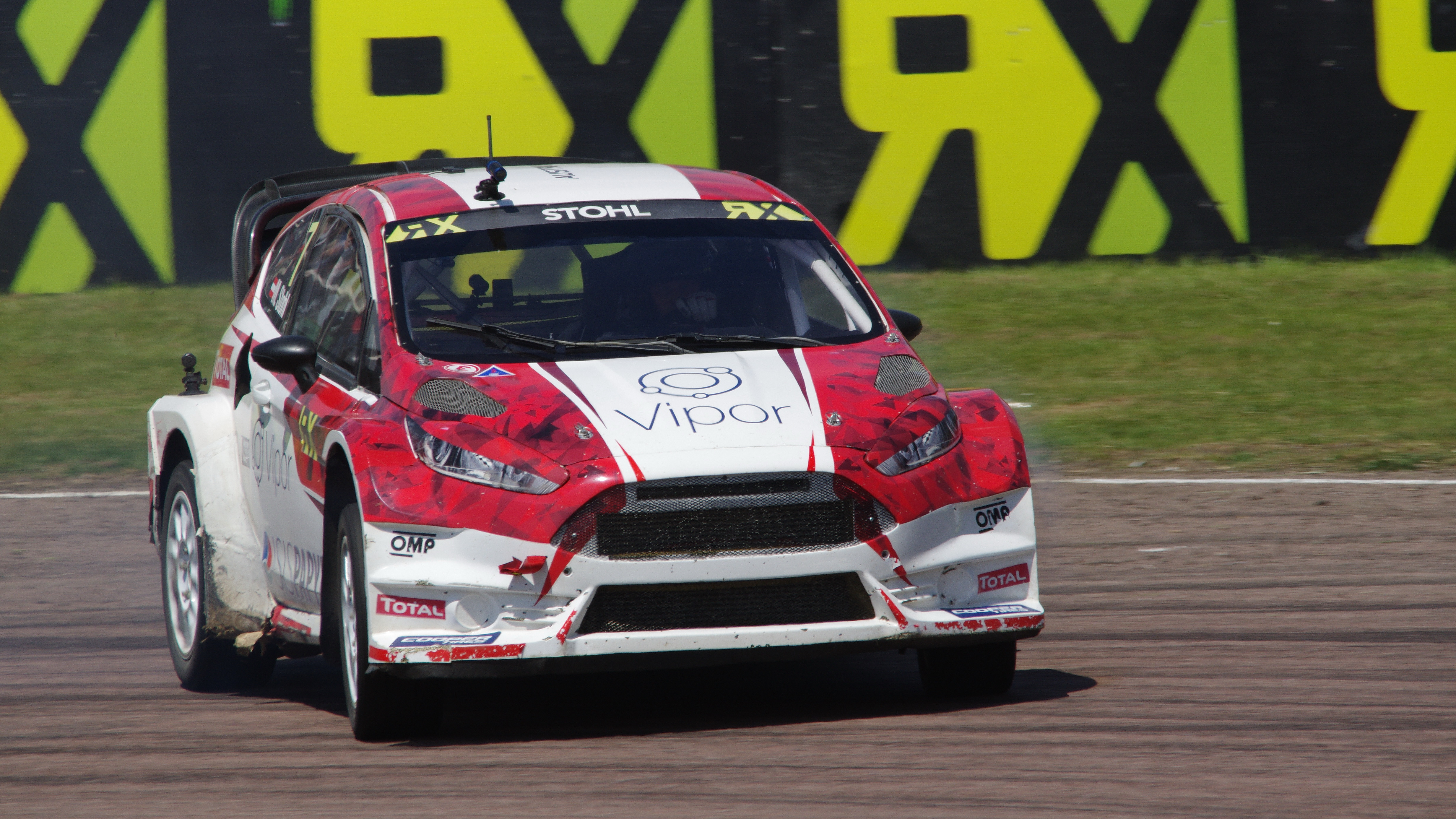 Semi-final, at the hairpin. Sunday 24th May, 2015. Round 4, World Rallycross Championship.